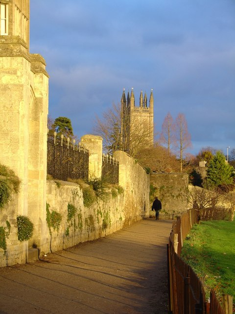 Merton & Magdalen Colleges, Christ Church Meadow The northern edge of Christ Church Meadow on the last day of 2004.